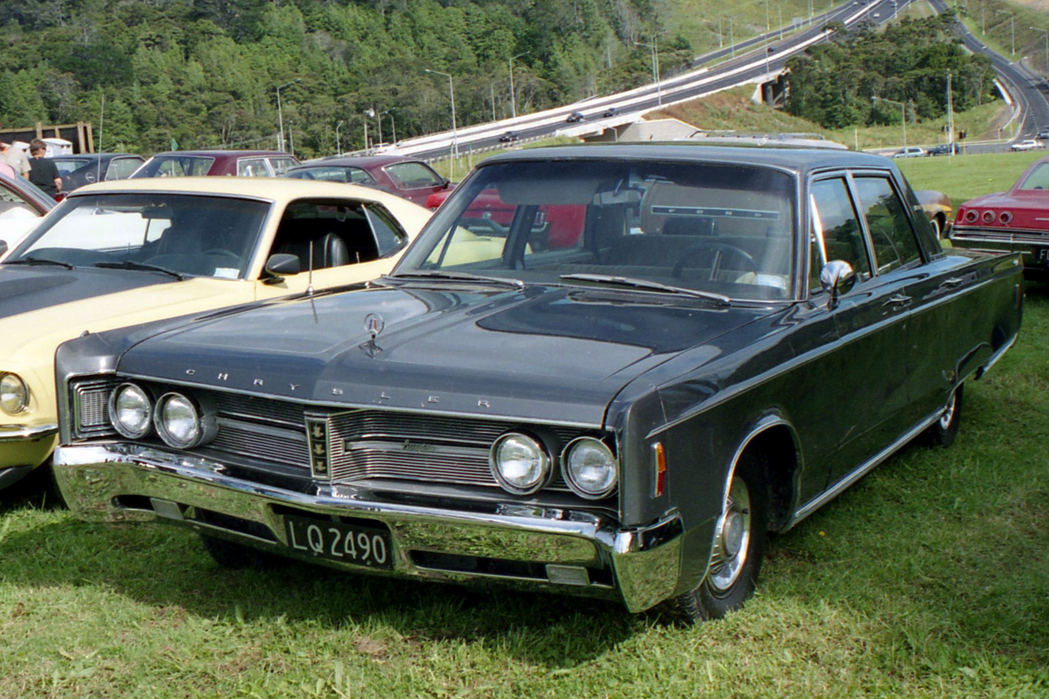 Albany,North Auckland.New Zealand.